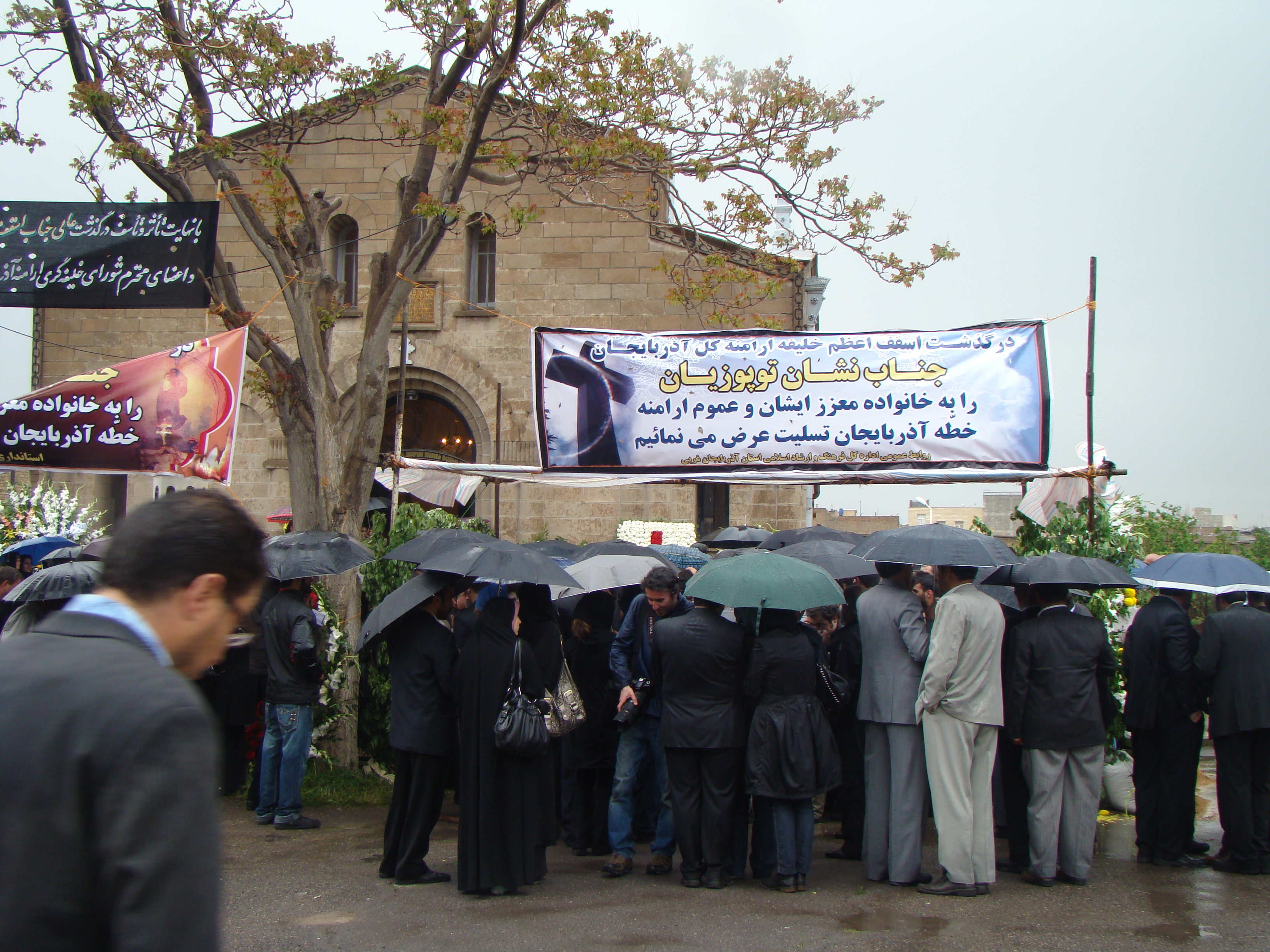 Interment of Mr,Neshan Topoziyan - Tabriz